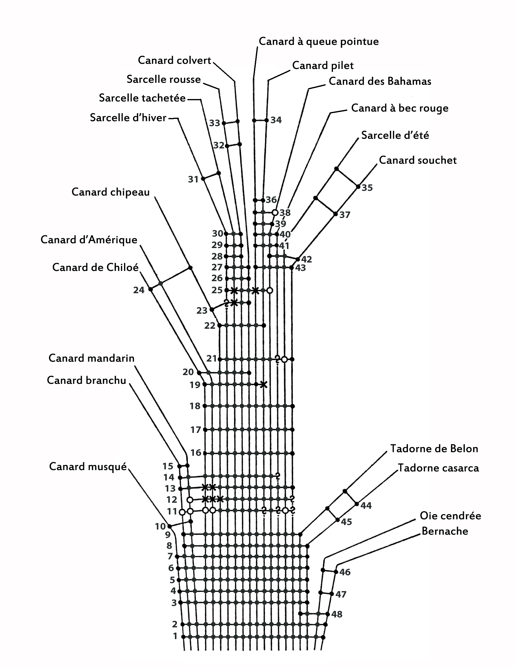 Diagram of compared behaviour of anatinae after Konrad Lorenz' Comparative Studies on the Behaviour of Anatinae.